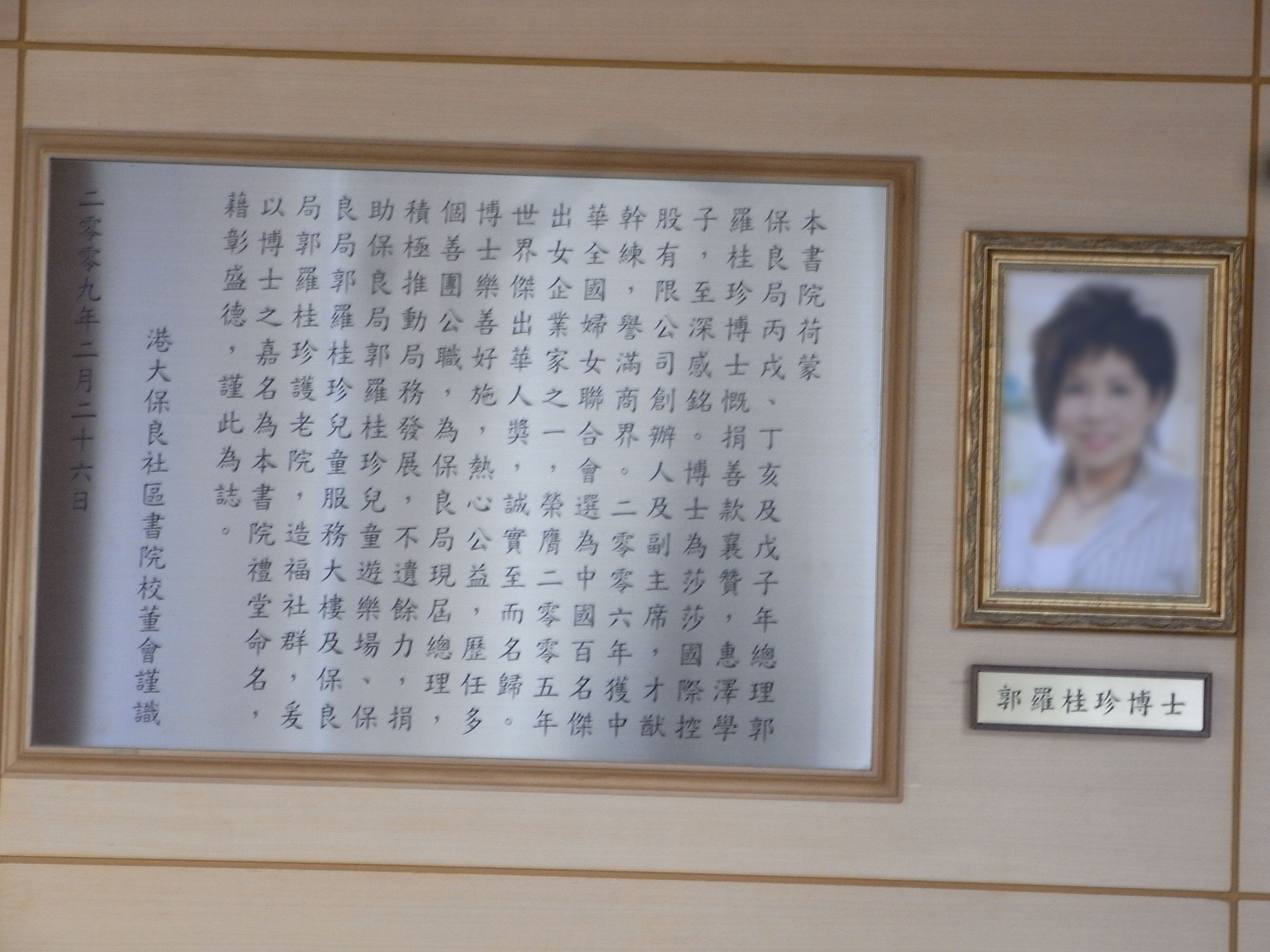 銅鑼灣香港大學專業進修學院保良局社區書院